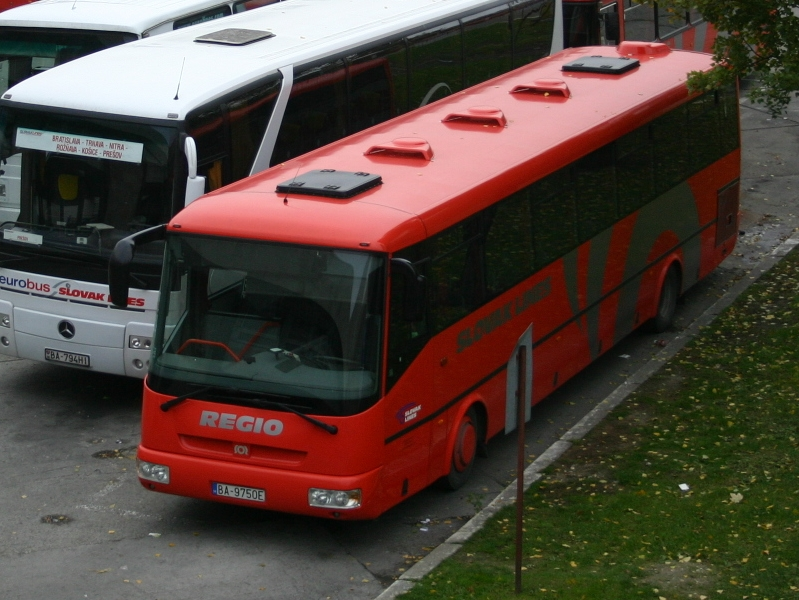 SOR C 12, Bratislava